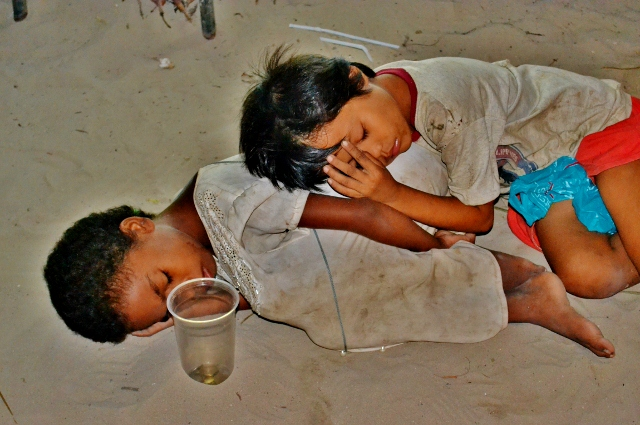 Want to wake them up? Make a sound by throwing coins in their plastic cup. It serves as their alarm clock, signalling that there's a help coming from heaven...